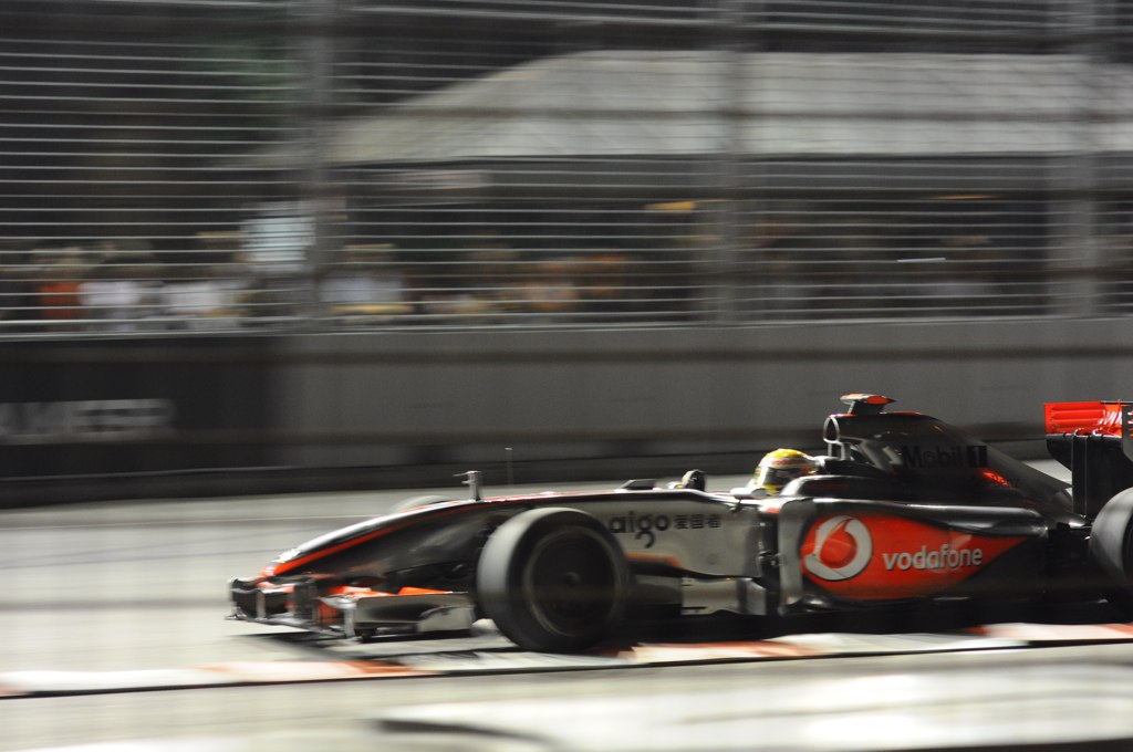 Lewis Hamilton at turn 12 at the Marina Bay Street Circuit in Singapore